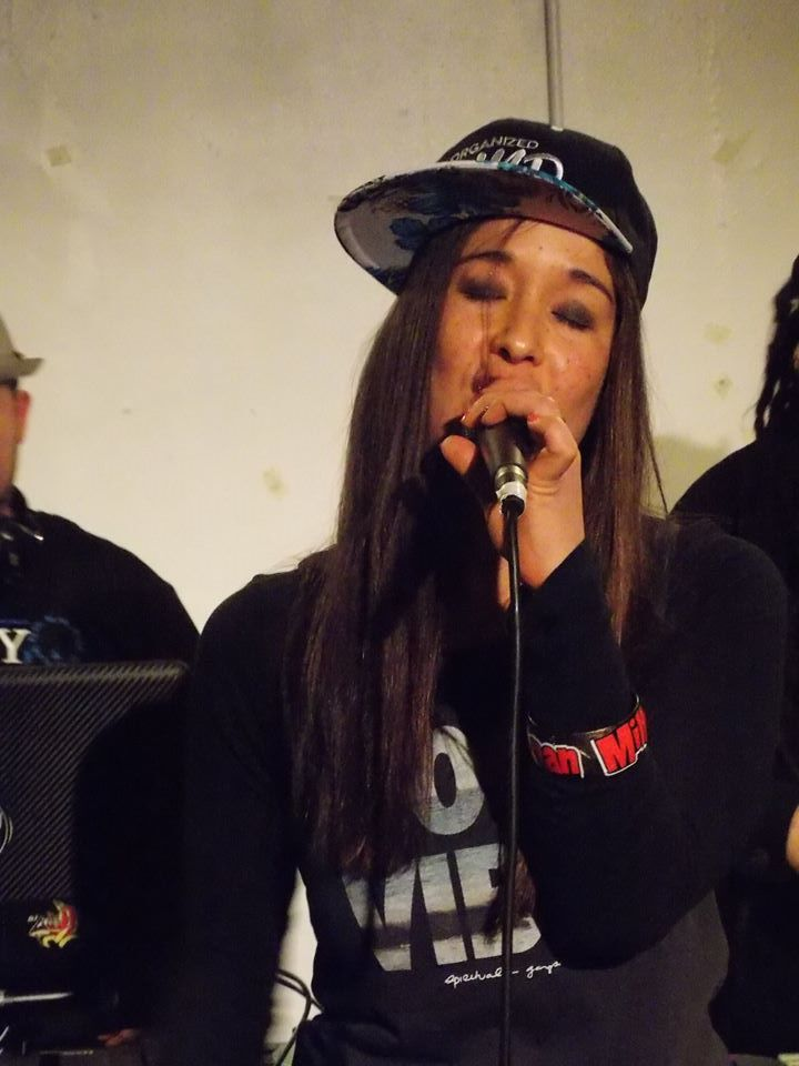 Female Freestyler